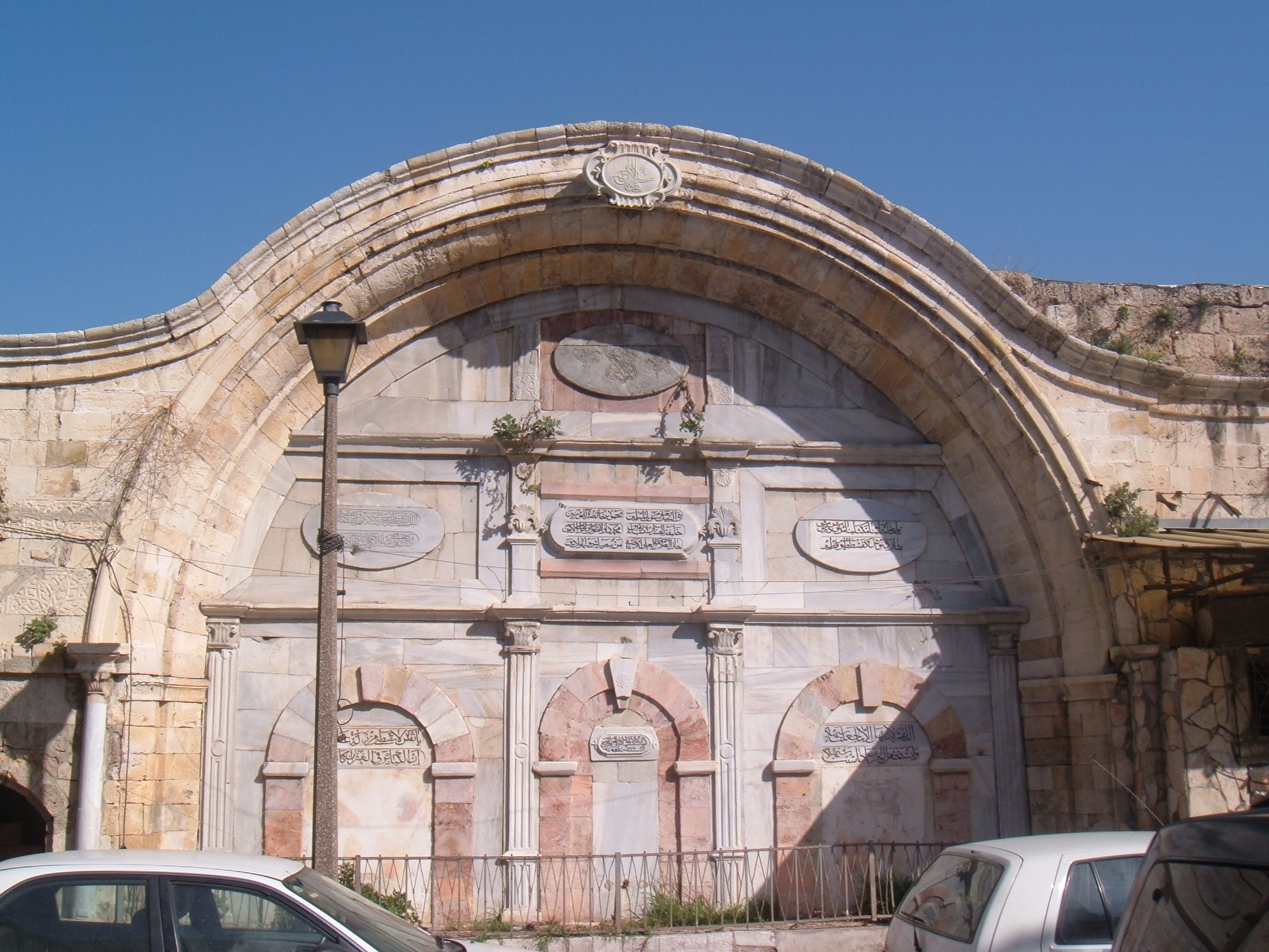 ottoman water fountain in Jaffa "סביל סולימאן" בחזית הדרומית של מסגד המחמודייה ביפו.